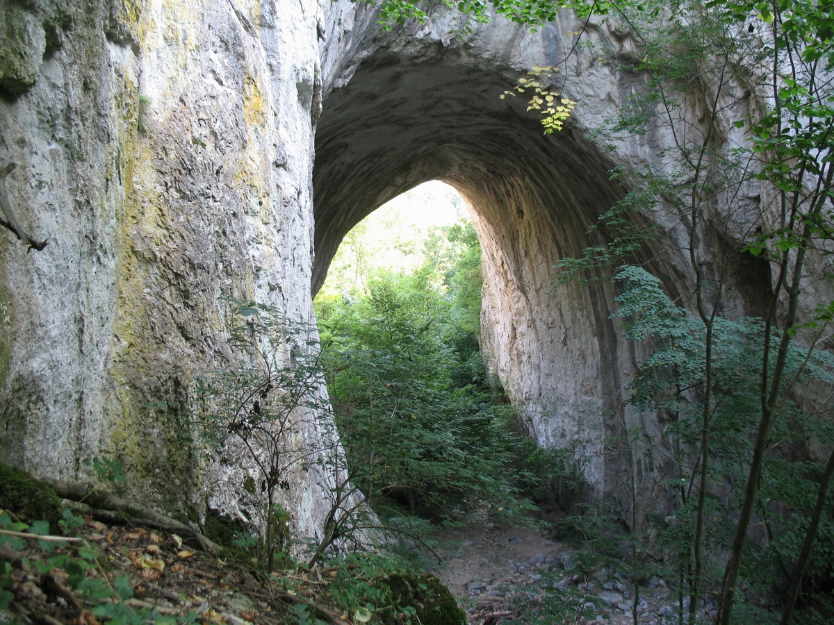 Suva Prerast (Dry stone bridge) on Vratna river on Veliki Greben mountain, Serbia.